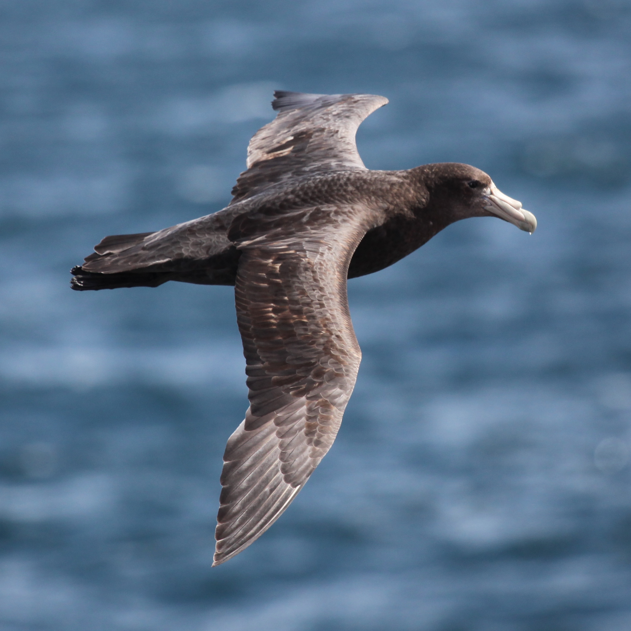 Between Tierra del Fuego and the Falkland Islands.